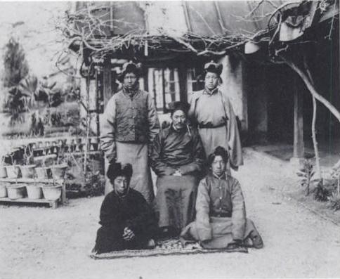 Kusho Lungshar seated in center, two boys sitting at his feet and two standing behind him. All on carpet. Building and garden in background. Gangtok. British Residency